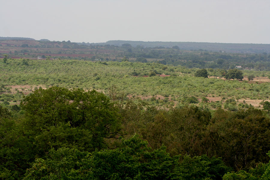 Ananthagiri forest at Ananthagiri Hills, in Rangareddy district of Andhra Pradesh, India.